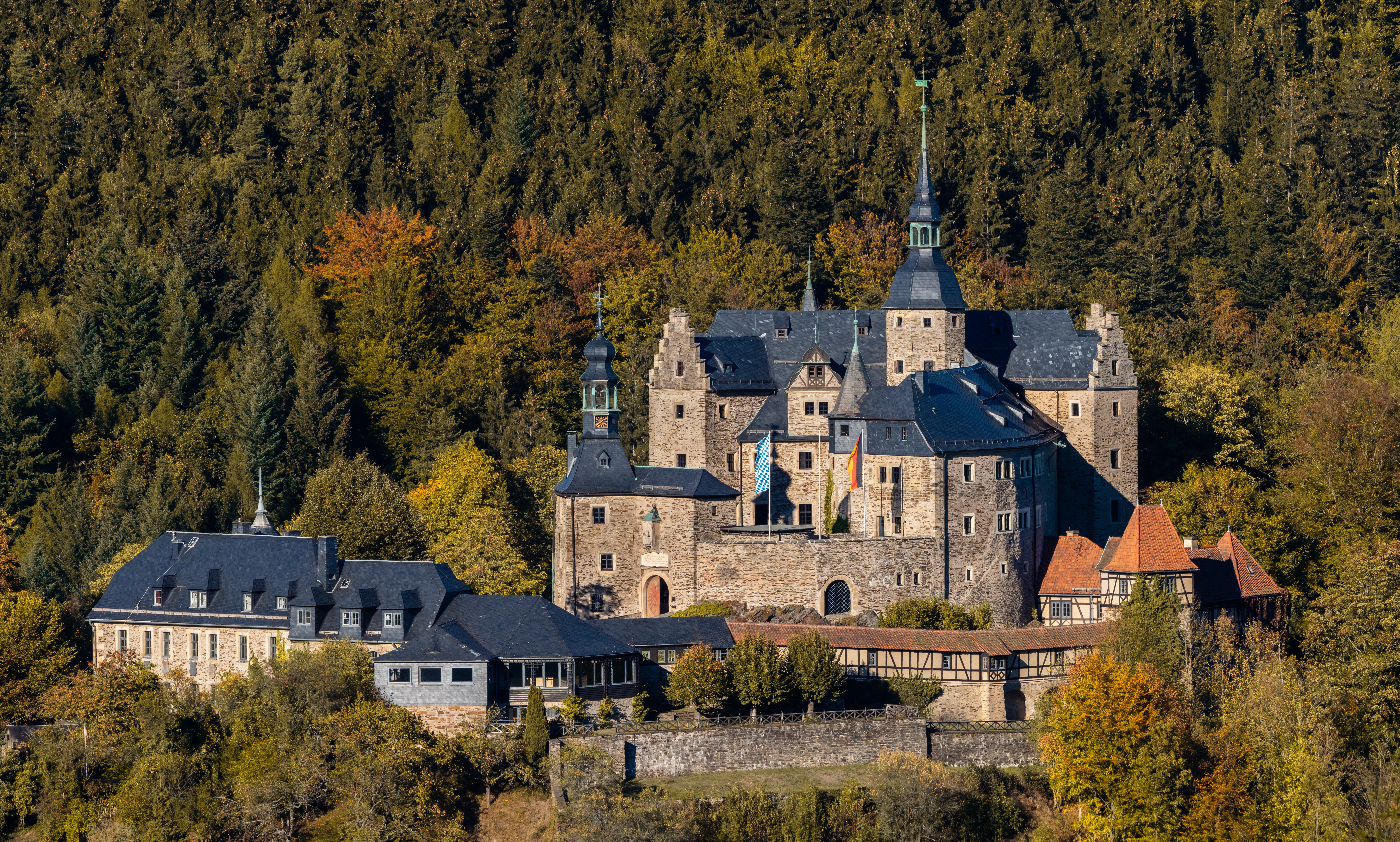 Lauenstein Castle in Upper Franconia